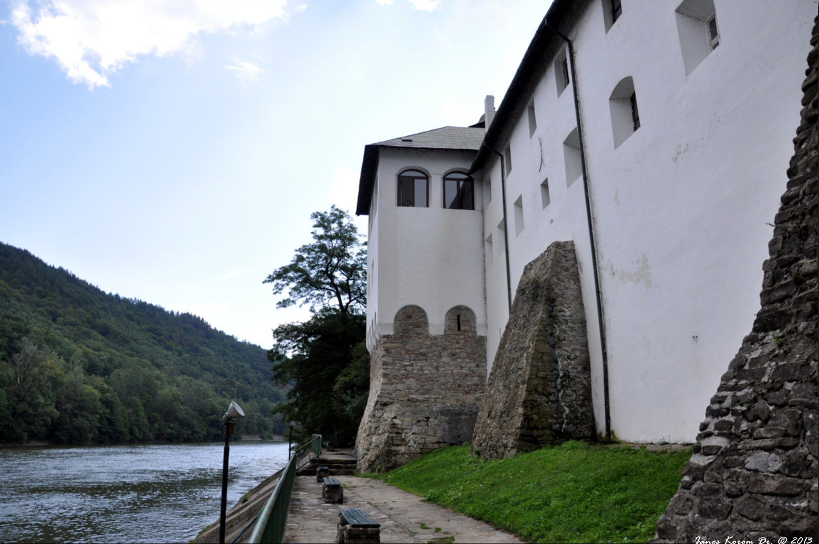 Walls of Byzantine Cozia Monastery on Olt River bank, Romania